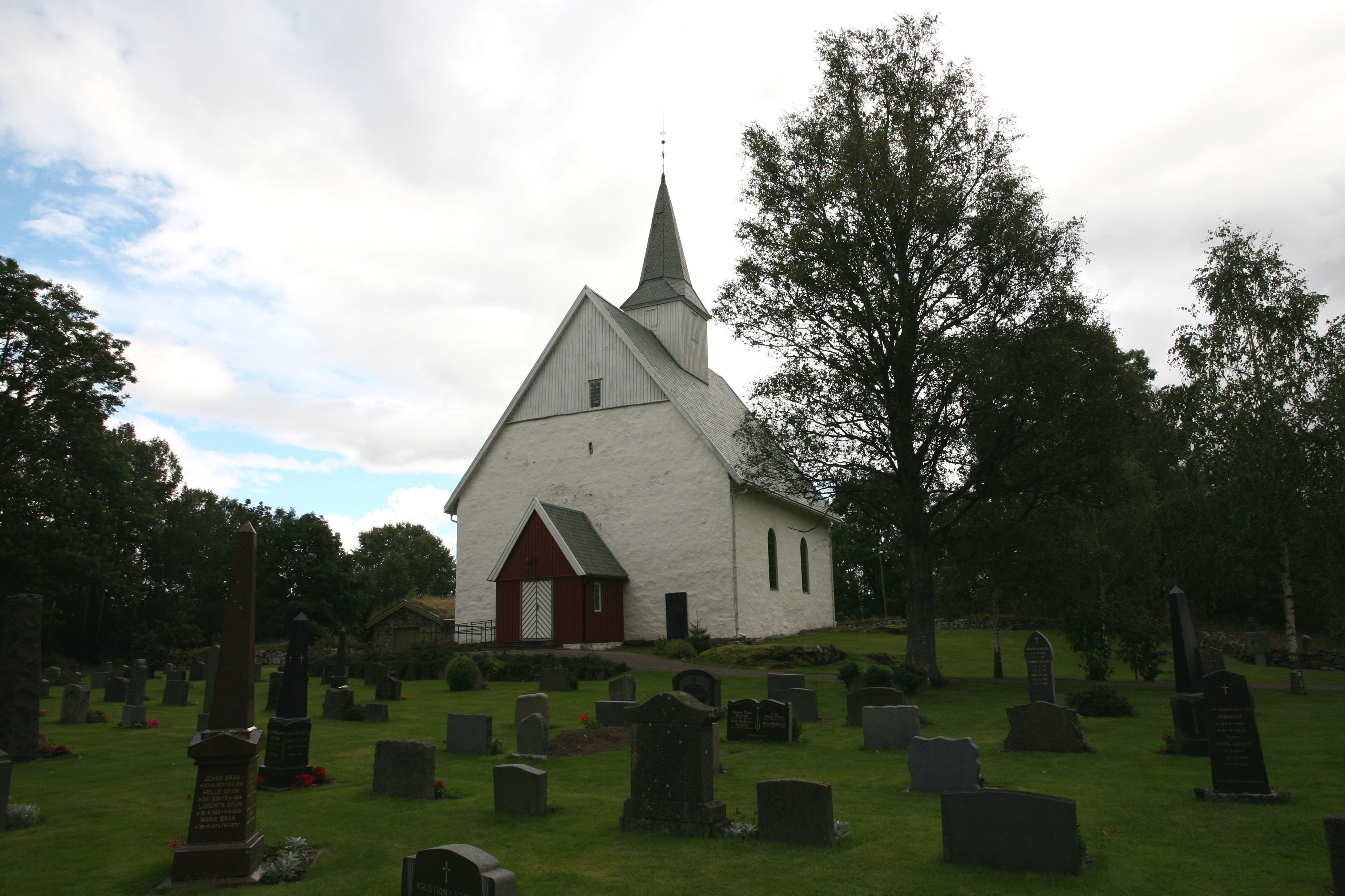 Picture of Andebu kirke (Vestfold - Norway)